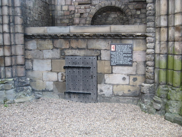 Holyrood Abbey